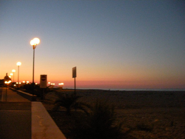 Torino di Sangro Marina to the sunset